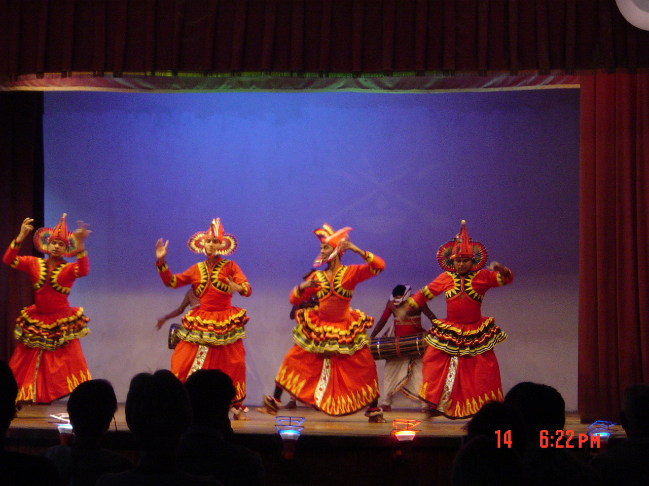 Evil dance: One of the traditional Kandyan dances - Devol Natuma, performed for general immunity from evil influences.